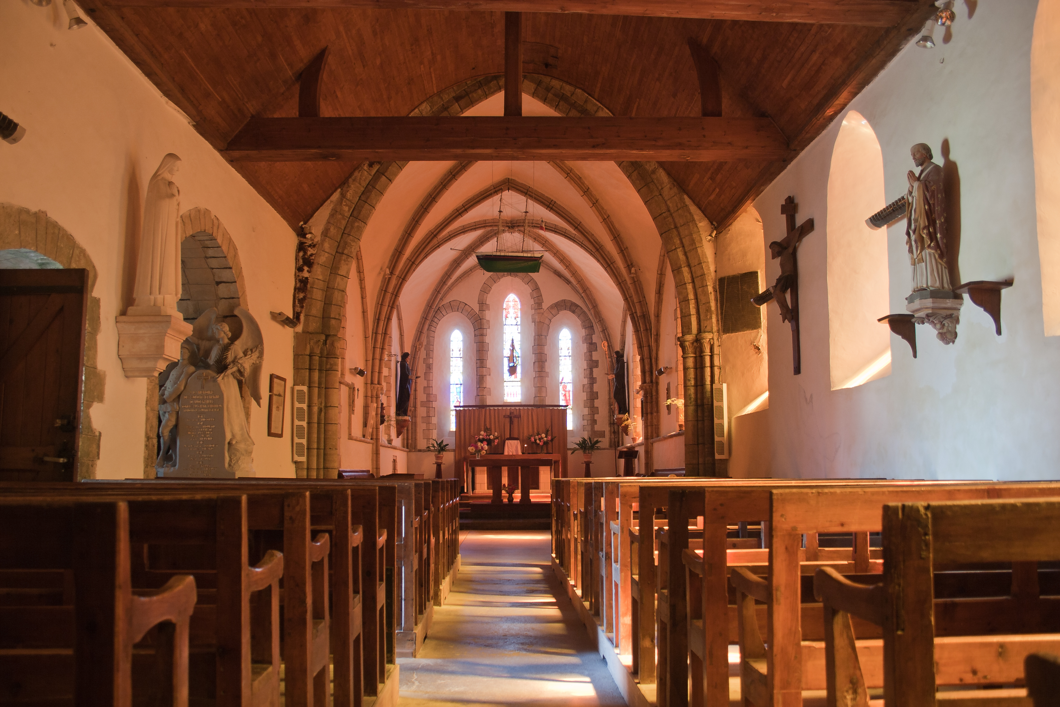 Nave and choir, looking east.